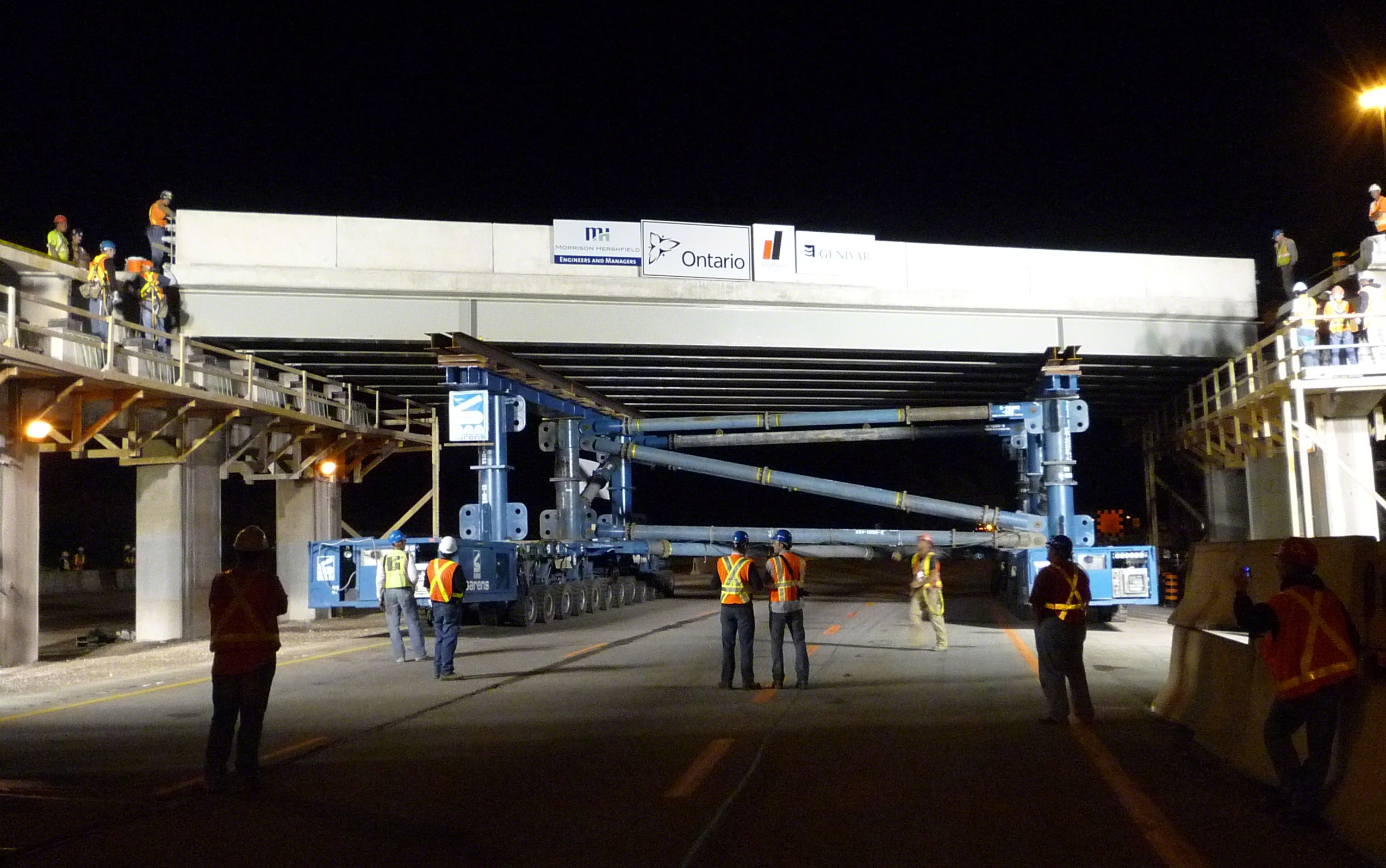 Aberdeen Bridge, Hamilton, Ontario, during its replacement by Morrison Hershfield.